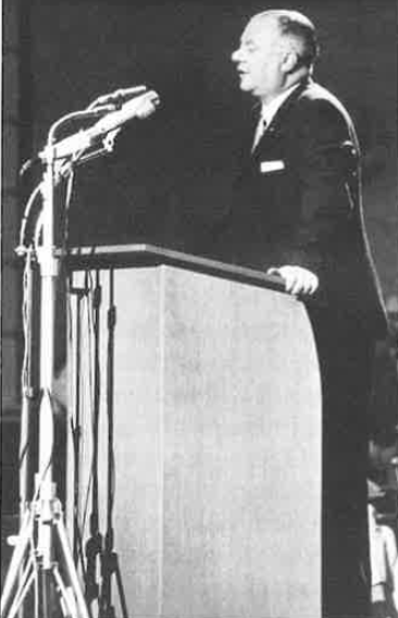 René Nicoly, founder of Jeunesses Musicales de France (in 1942) and of the FIJM (in 1945, with Cuvelier). Foto taken during the Amsterdam World Congress in 1964.)